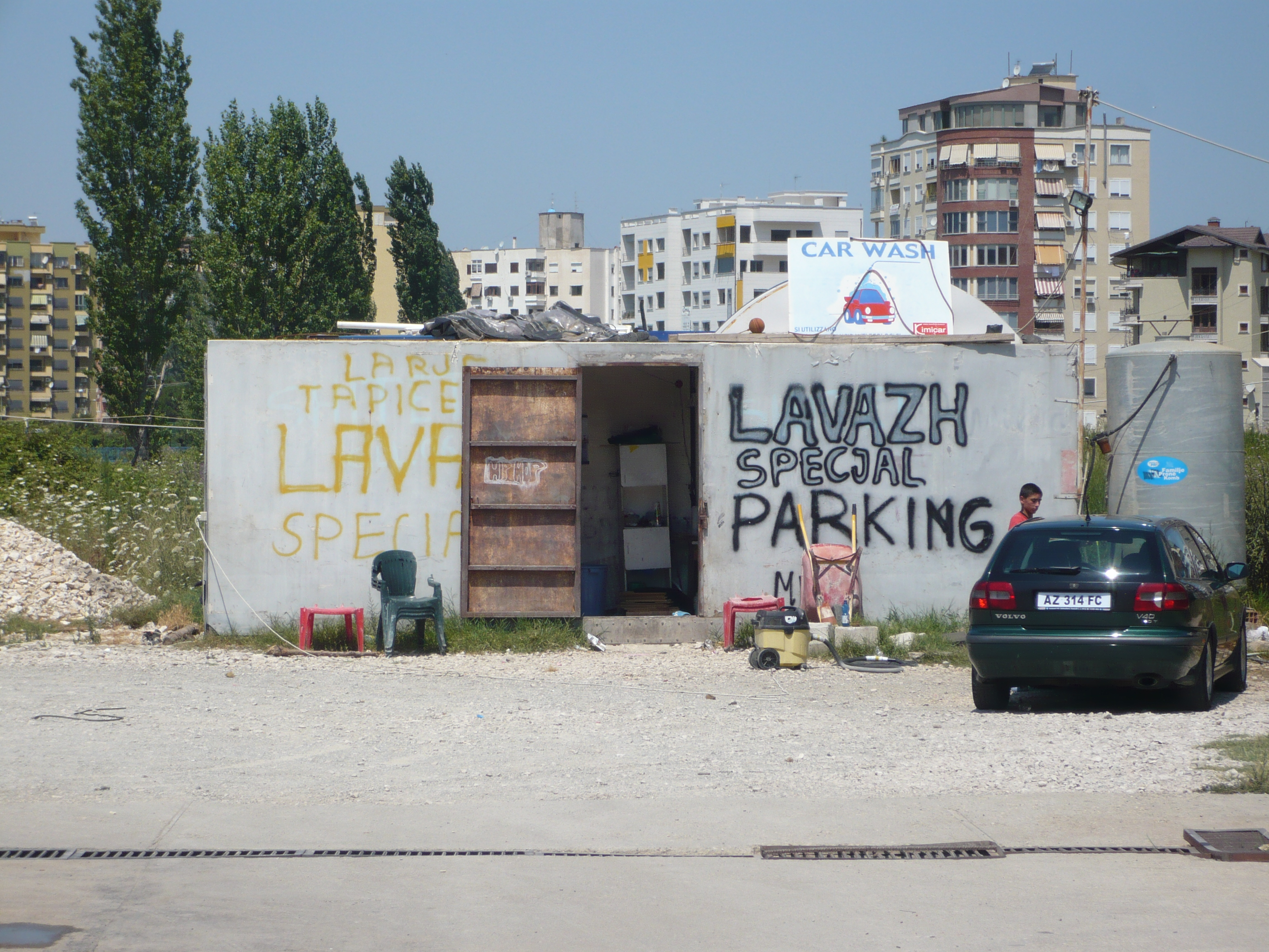 Car wash place in Tirana, Albania